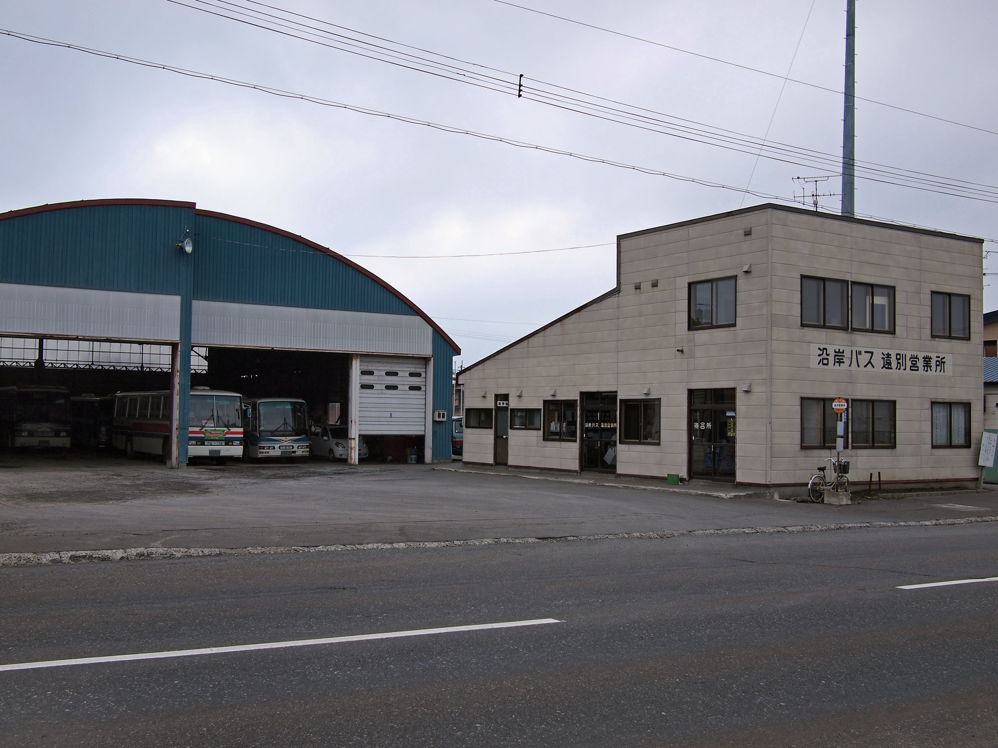 Engan Bus Enbetsu terminal, Enbetsu, Hokkaido, Japan